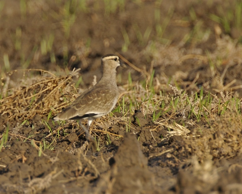 Sociable Lapwing Vanellus gregarius, Little Rann of Kutch, India